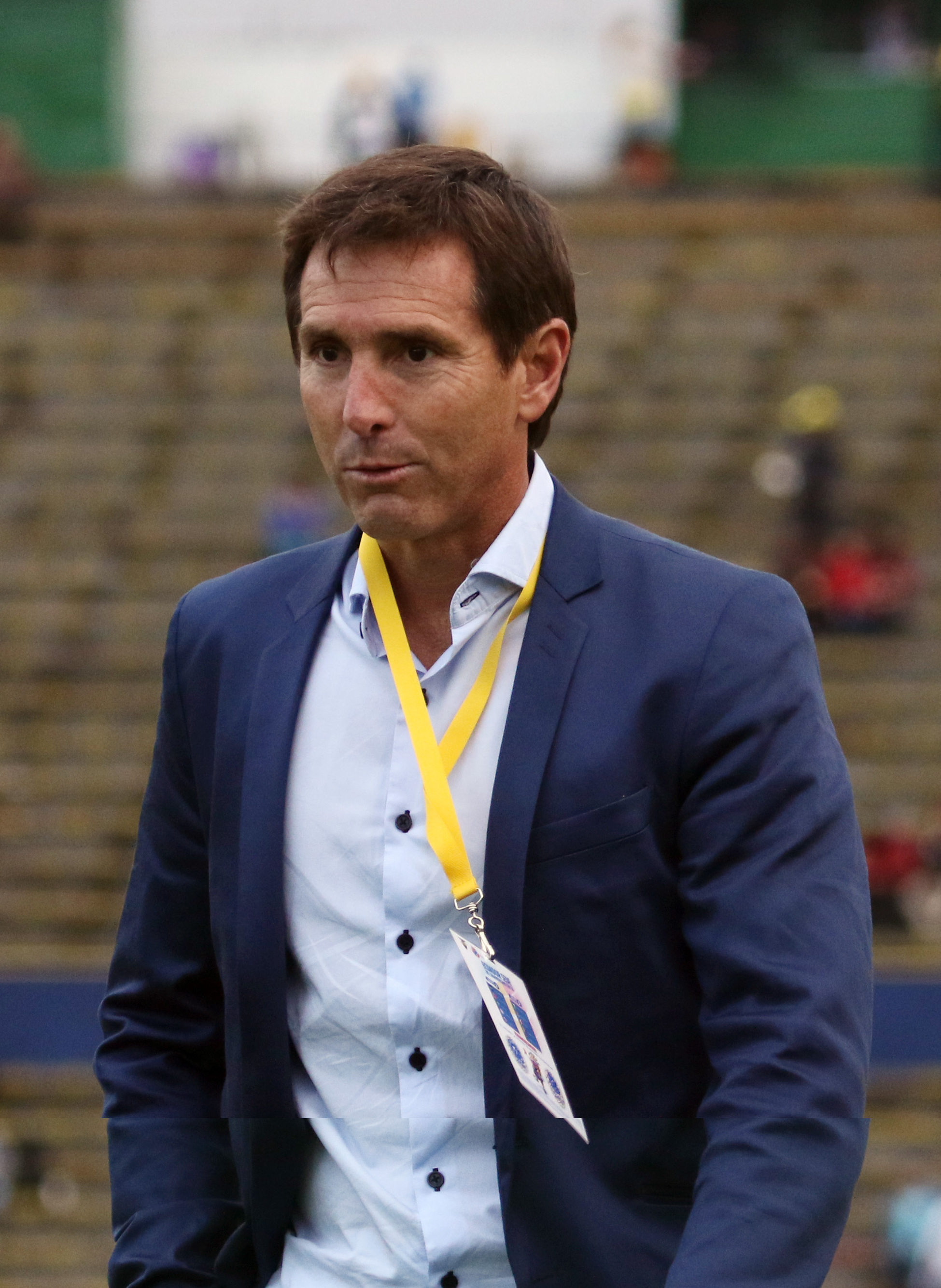 Quito, 2 de febrero del 2017 (Andes).- La escuadra argentina necesitaba ante Colombia un buen resultado para sacudirse del 0-3 recibido en la primera fecha frente a Uruguay y lo consiguió con goles en el minuto uno y el 92, con los que venció 2-1 a Colombia en la segunda fecha del Sudamericano Sub 20 Ecuador 2017. ANDES/Micaela Ayala V. This file comes from the Flickr stream of the Public News Agency of Ecuador and South America and is copyrighted. This file is verified as being licenced under an appropriate Creative Commons licence. In short: you are free to modify the file as long as you attribute Photographer name/Andes and distribute it under the same licence. This tag does not indicate the copyright status of the attached work. A normal copyright tag is still required. See Commons:Licensing for more information. English | español | +/−